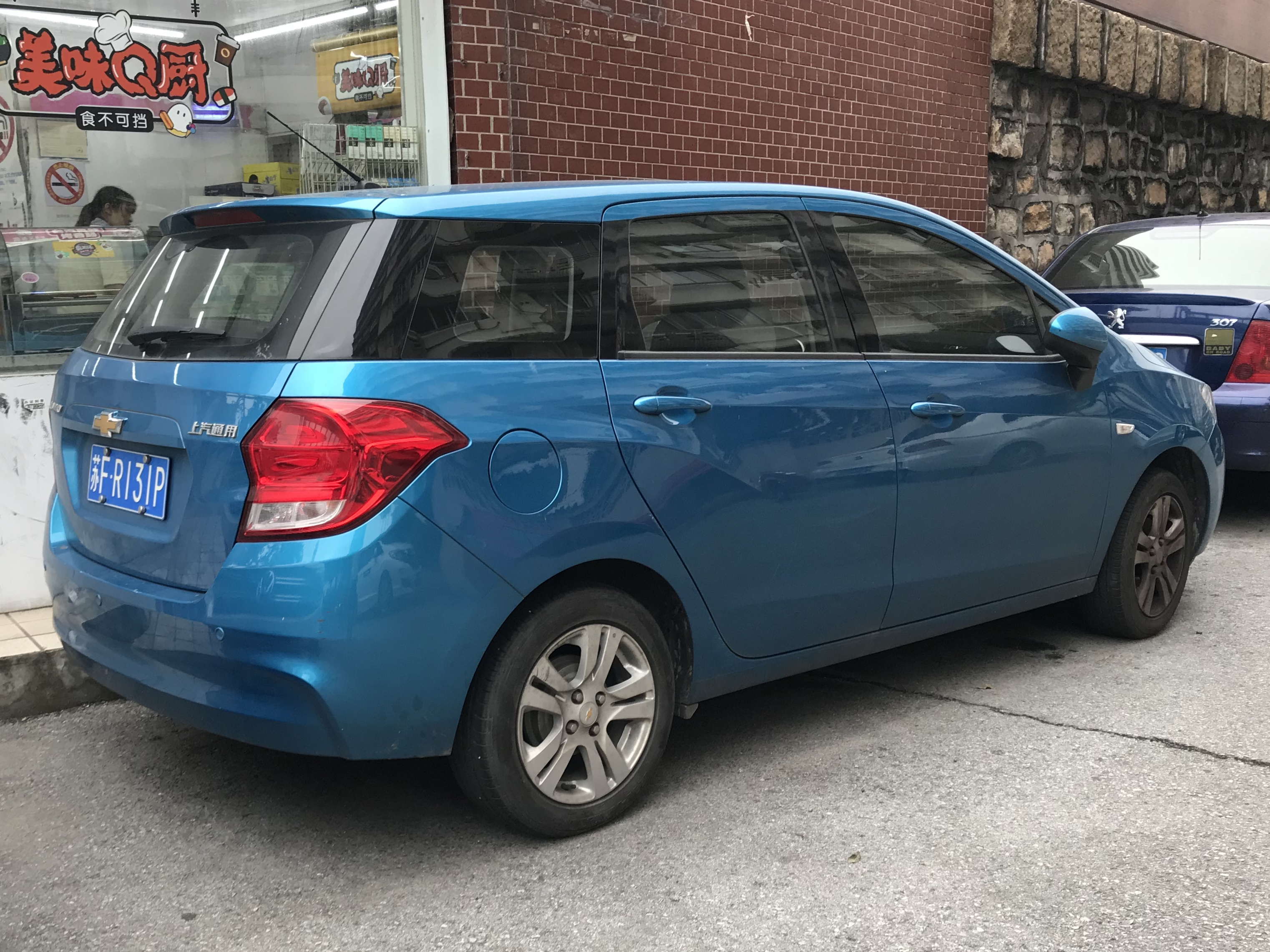 Chevrolet Lova RV